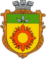 City coat of arms Енергодар Zaporizhia Oblast, Ukraine.